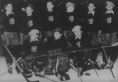 Troppau EV ice hockey team, probably in year 1933 or 1934. Sitting from left: Mattern, Tomaschek, Heinz. Standing from left: Otto Weißhuhn, Wolfgang Dorasil, Flachs, Steffan, Erwin Lichnofsky.